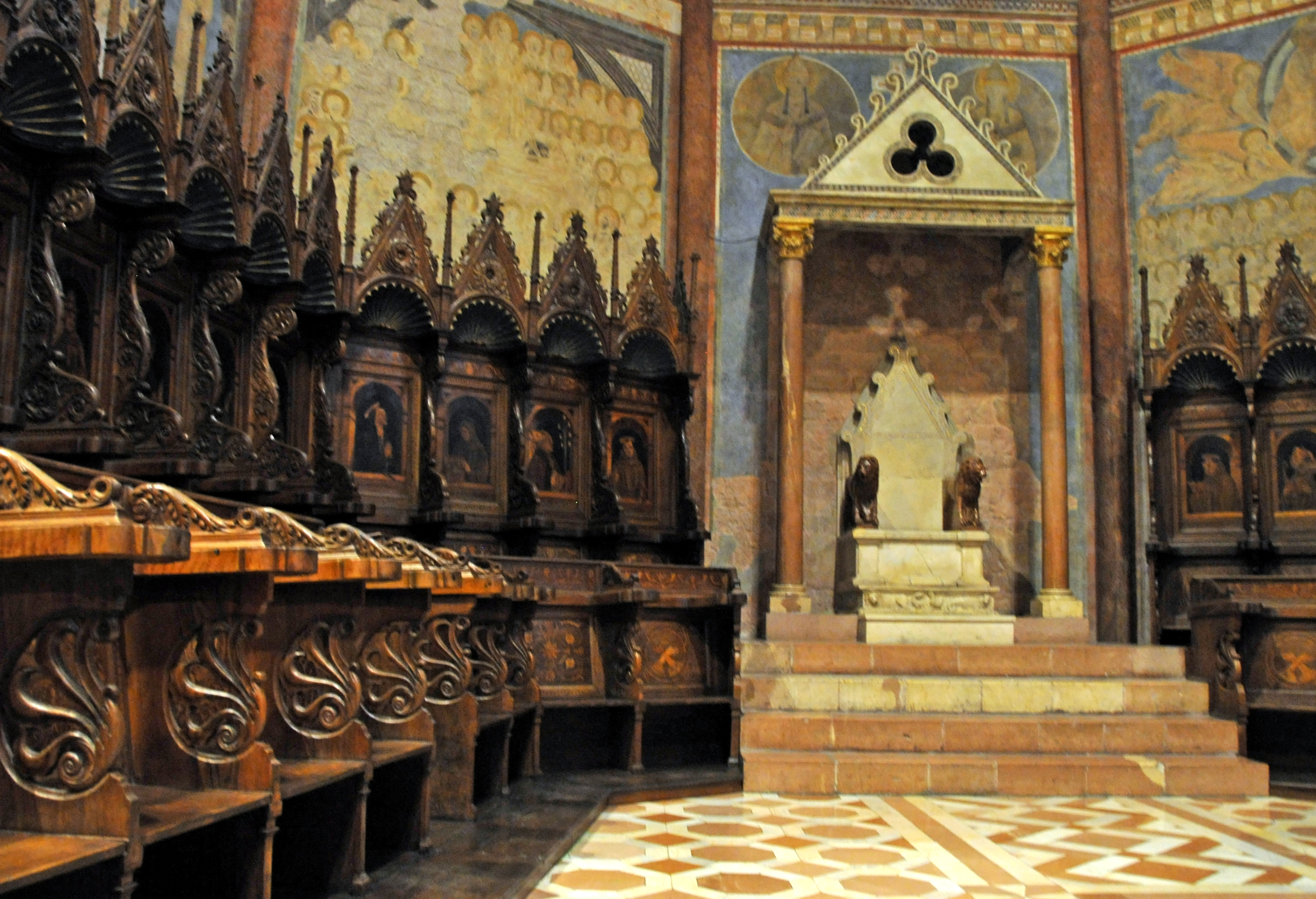 Upper Basilica in Assisi : Choir